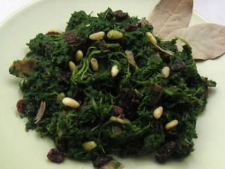 Spinachs salted in olive oil with blondes raisins and pine kernels are an ancien typical Catalan dish.